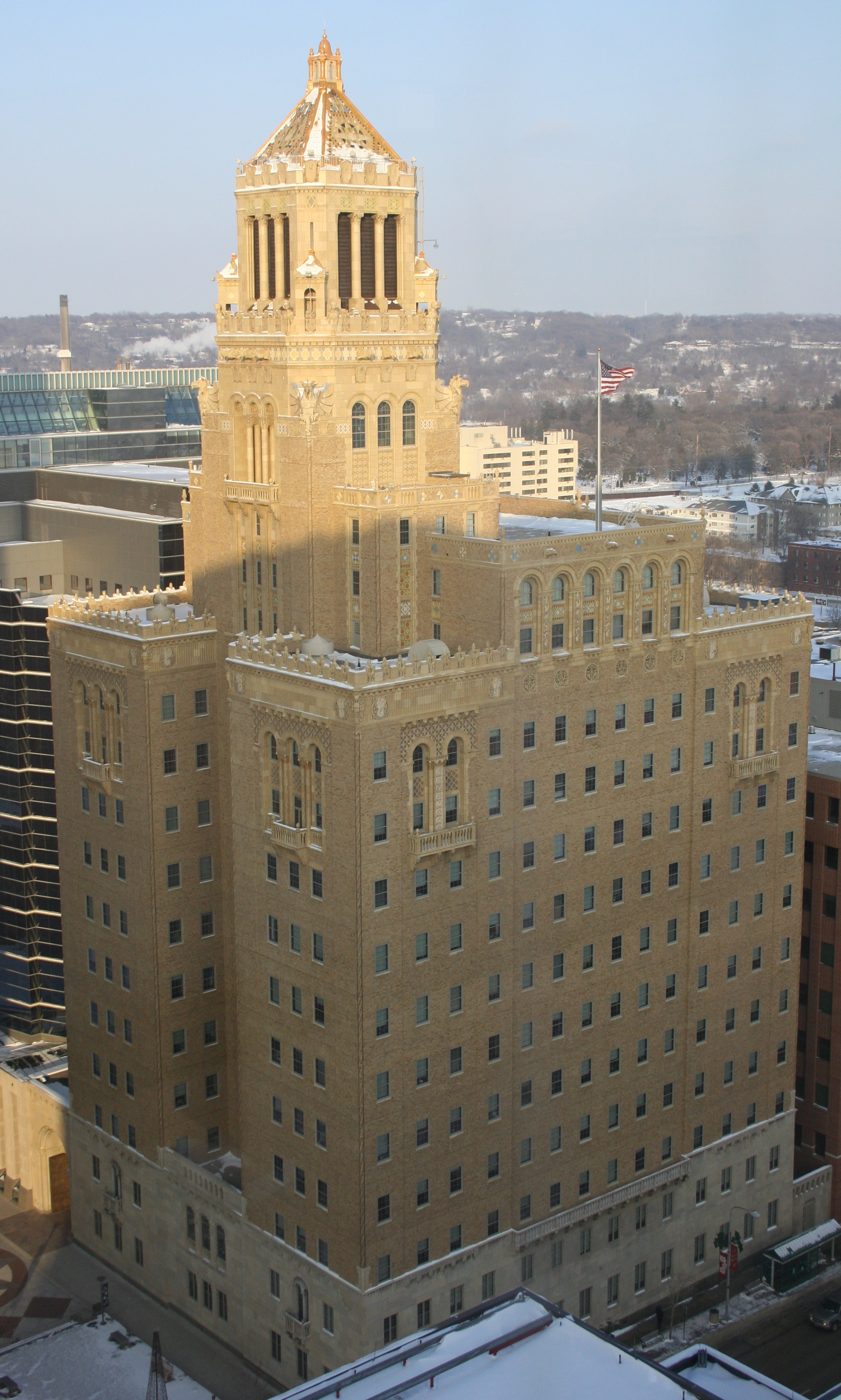 The Mayo Clinic Plummer Building seen from the south on Christmas Eve in Rochester, Minnesota